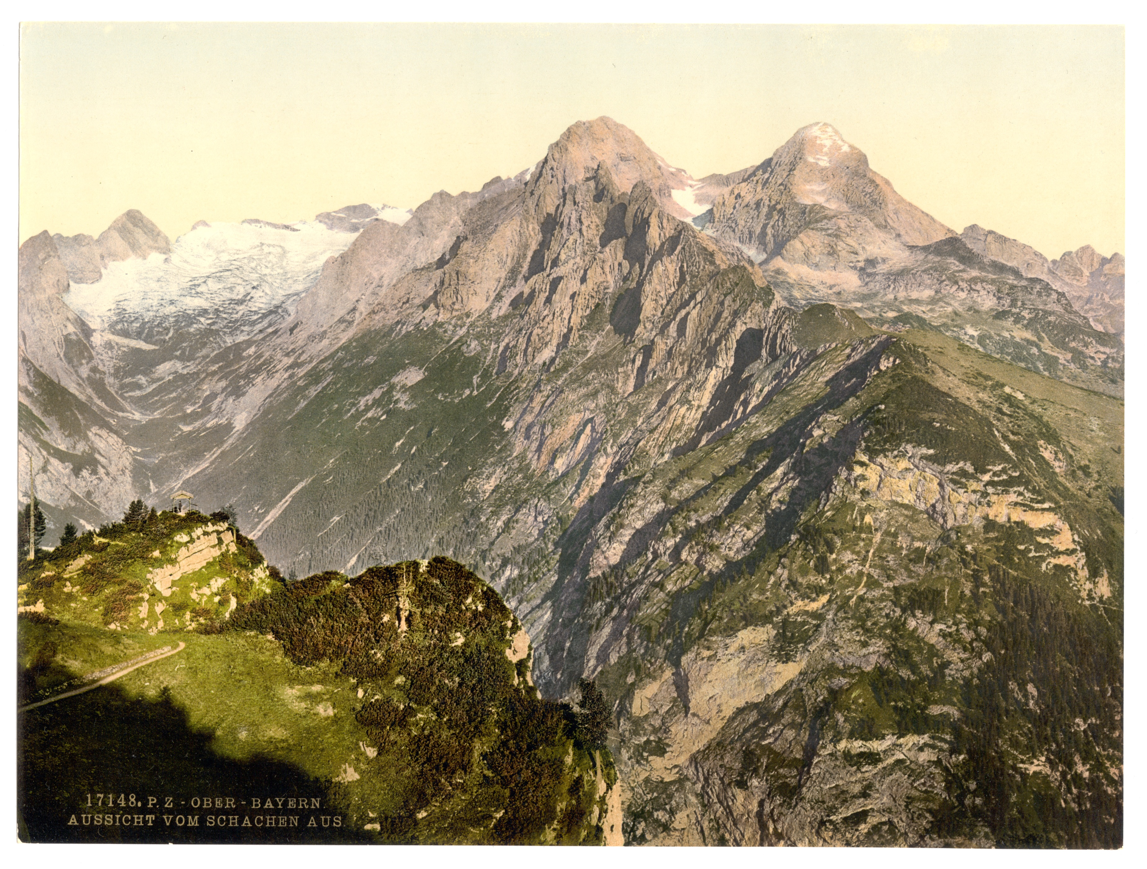 Title from the Detroit Publishing Co., catalogue J-foreign section. Detroit, Mich. : Detroit Photographic Company, 1905.; Forms part of: Views of Germany in the Photochrom print collection.; Print no. "17148".